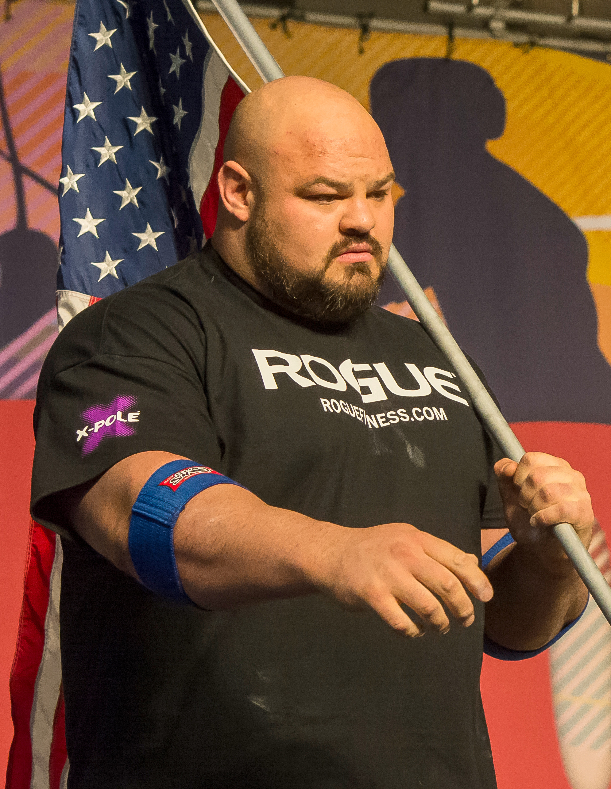 Aronald Classic Coulumbus, Ohio USA 2017